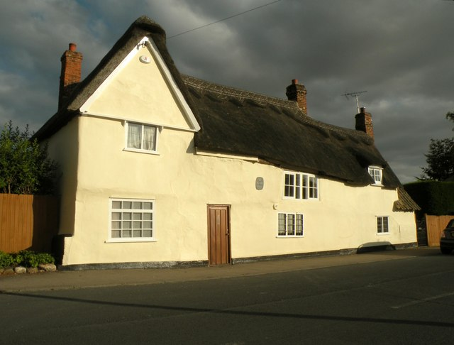 The Old Forge on Great Abington's High Street, near to Great Abington, Cambridgeshire, Great Britain.